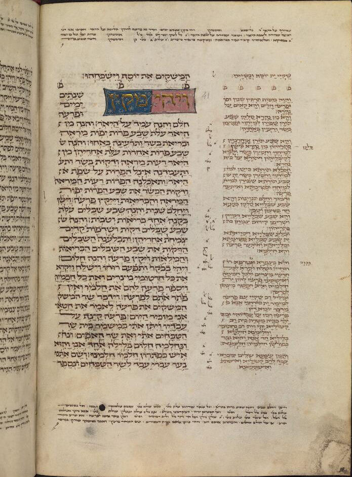 Page from a Hebrew Bible, Shelfmark: MS. Kennicott 3. Not the Kennicott Bible but from the same collection. Item description: "Humash (Pentateuch) with Onkelos (Aramaic translation), the Five Scrolls (Song of Songs, Ruth, Ecclesiastes, Lamentations, and Esther) and Haftarot (selections from the books of Prophets). With both Masorahs and vocalized (except for the last two Haftarot on Ta‘anit)". Digitised by the Polonsky Foundation Digitization Project. More provenance information at